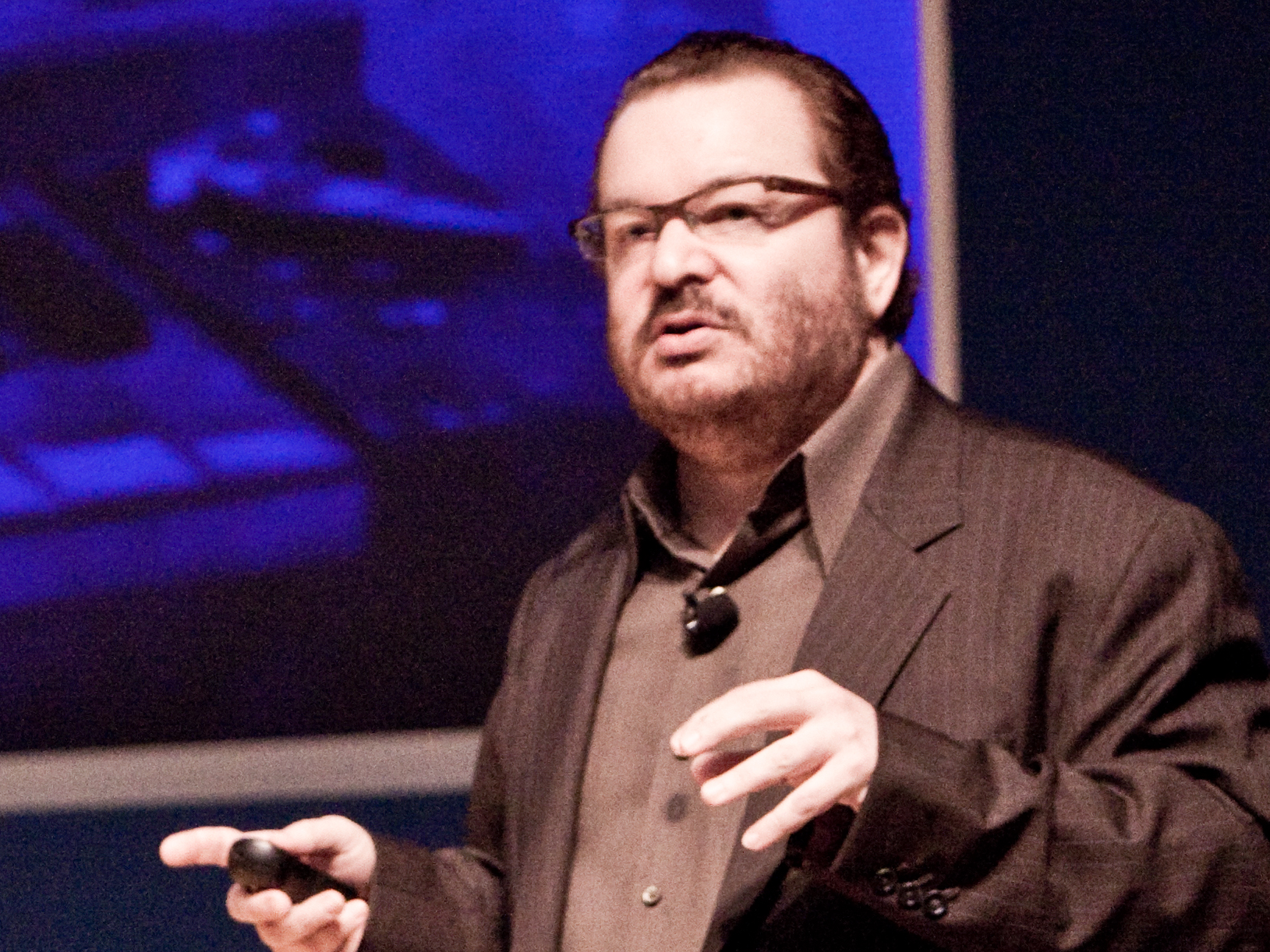 Jeffrey Zeldman lectures on modern web design at An Event Apart. Photo by Tony Quartarolo.